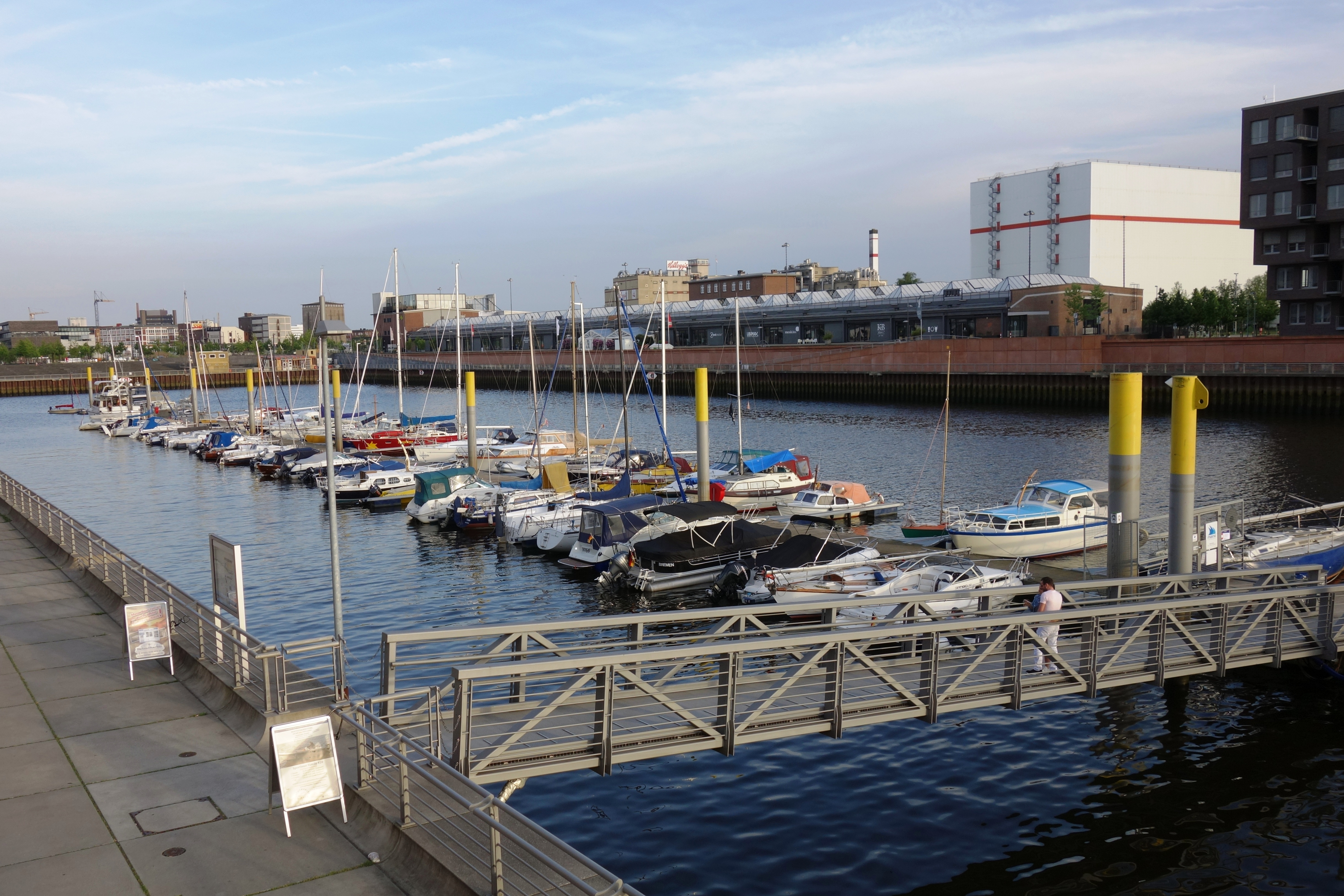 Floating jetty of Marina Europahafen in Bremen